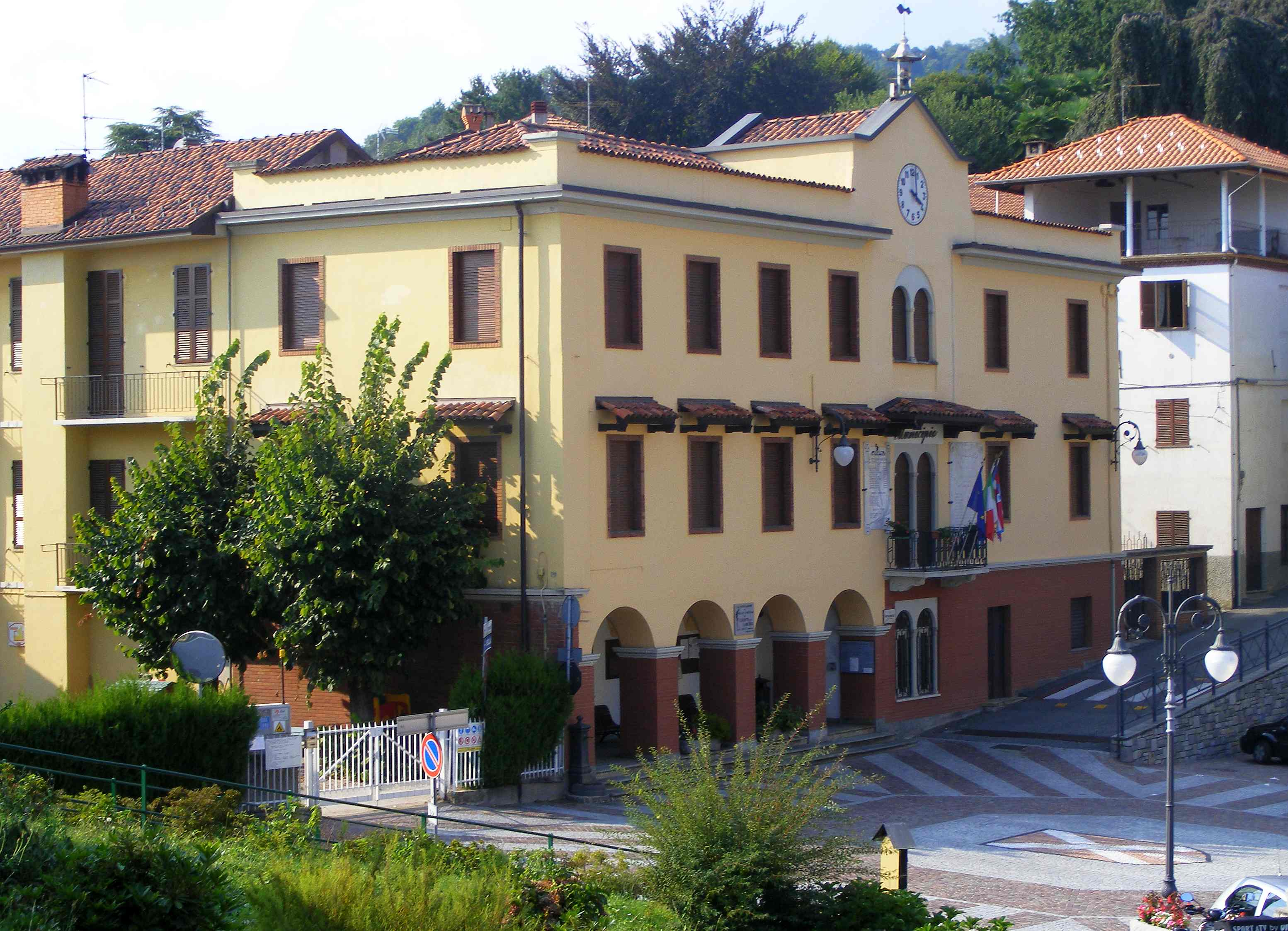 Valle San Nicolao (BI, Italy): town hall